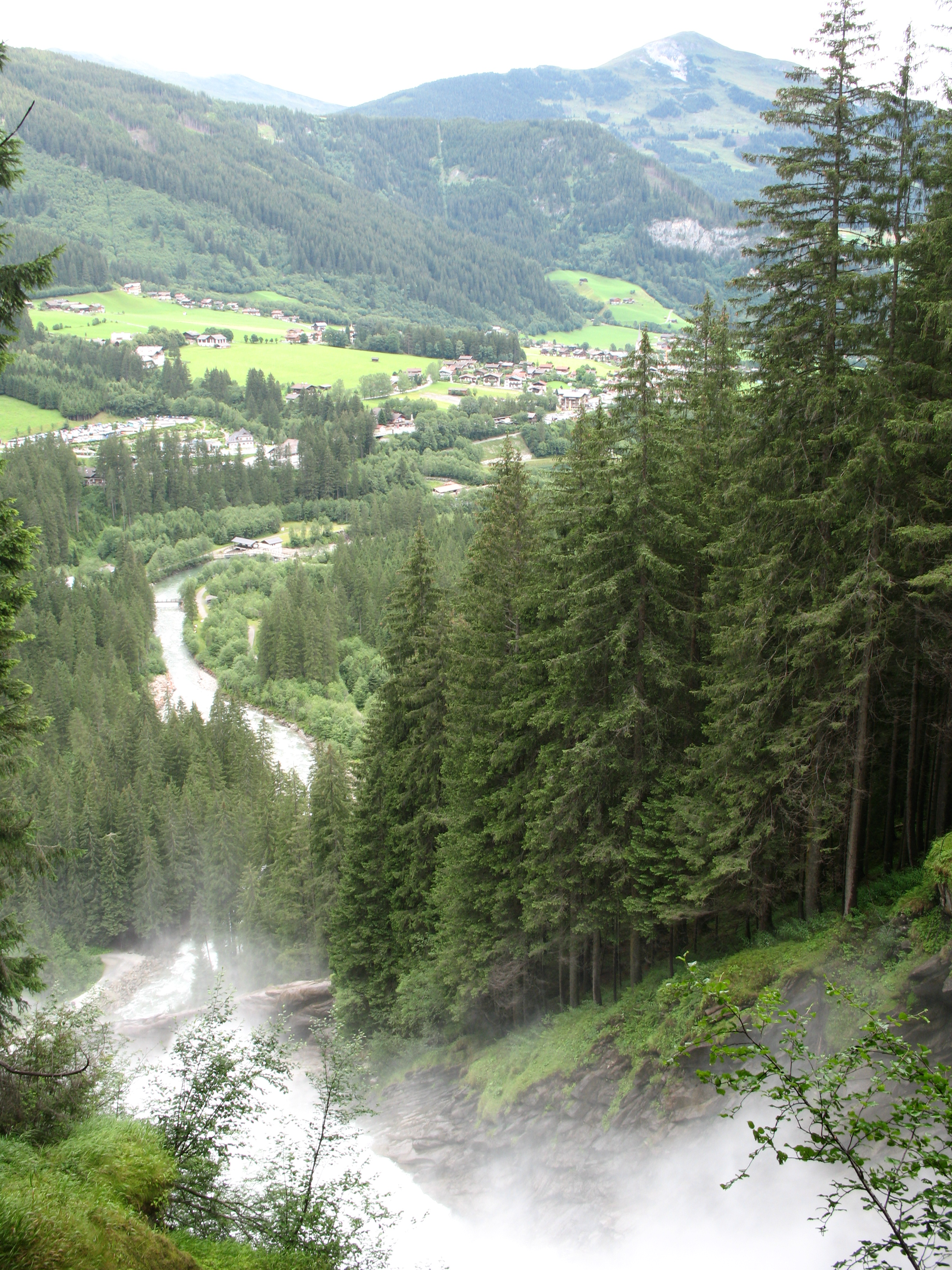 Krimml Waterfall, Hohe Tauern National Park, Austria